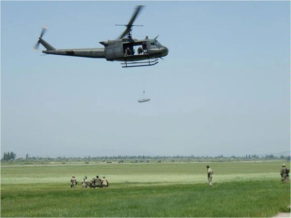 Medics, 31st Bn Medical Training - Litter basket drill is supervised. Argo Training Area on Vaziani Air Base.